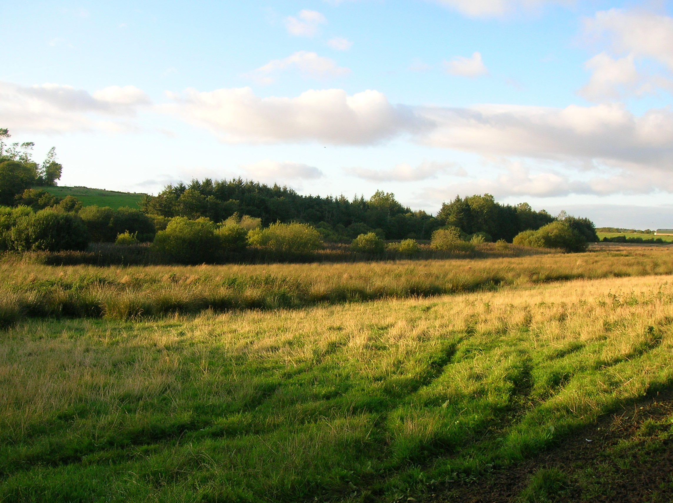 Carcluie Loch vegetation, Dalrymple, South Ayrshire, Scotland